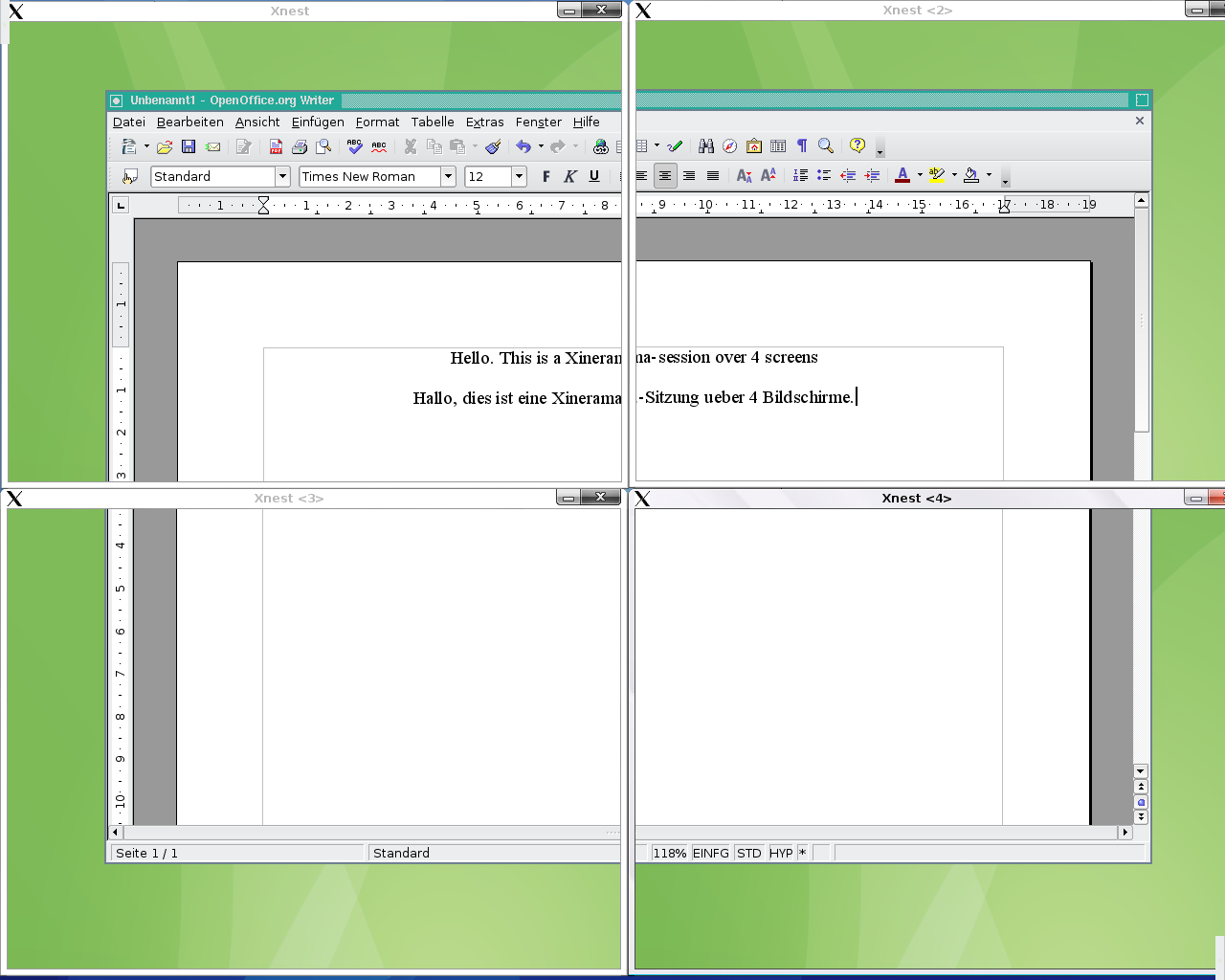 This screenshot shows Open Office 2 running in 4 Xnests with Xinerama. You can only see free Software.